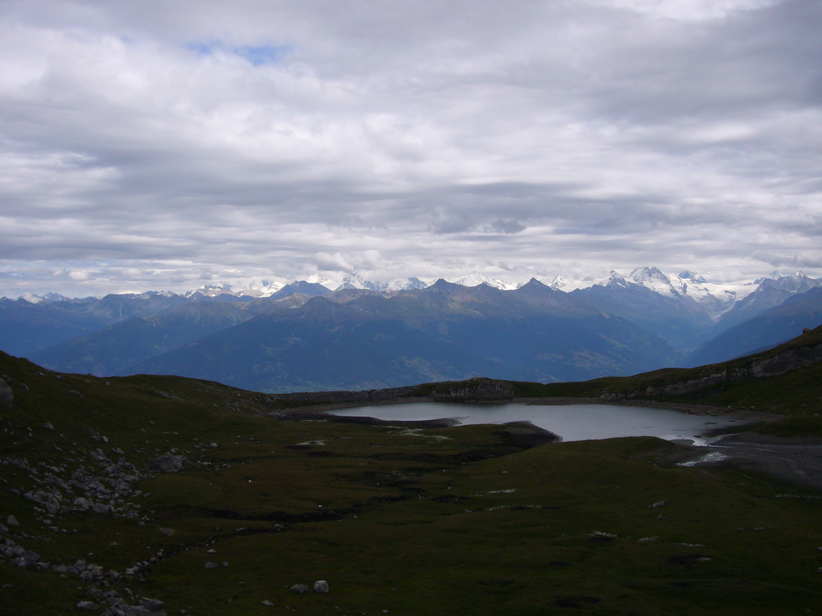 Near Mayens-de-Conthey in Conthey, Valais, Switzerland